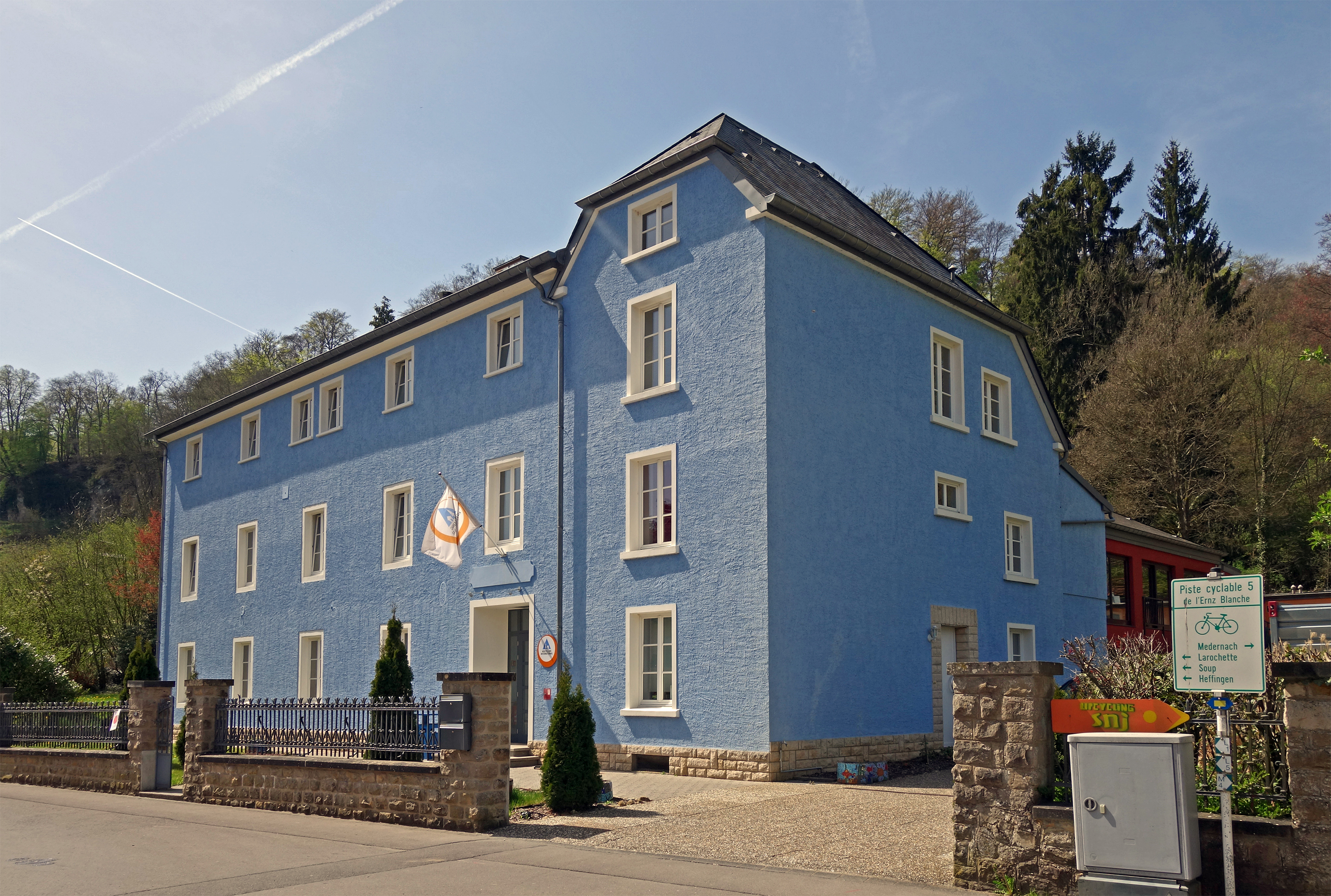 Youth hostel of Larochette a 45, rue Osterbour